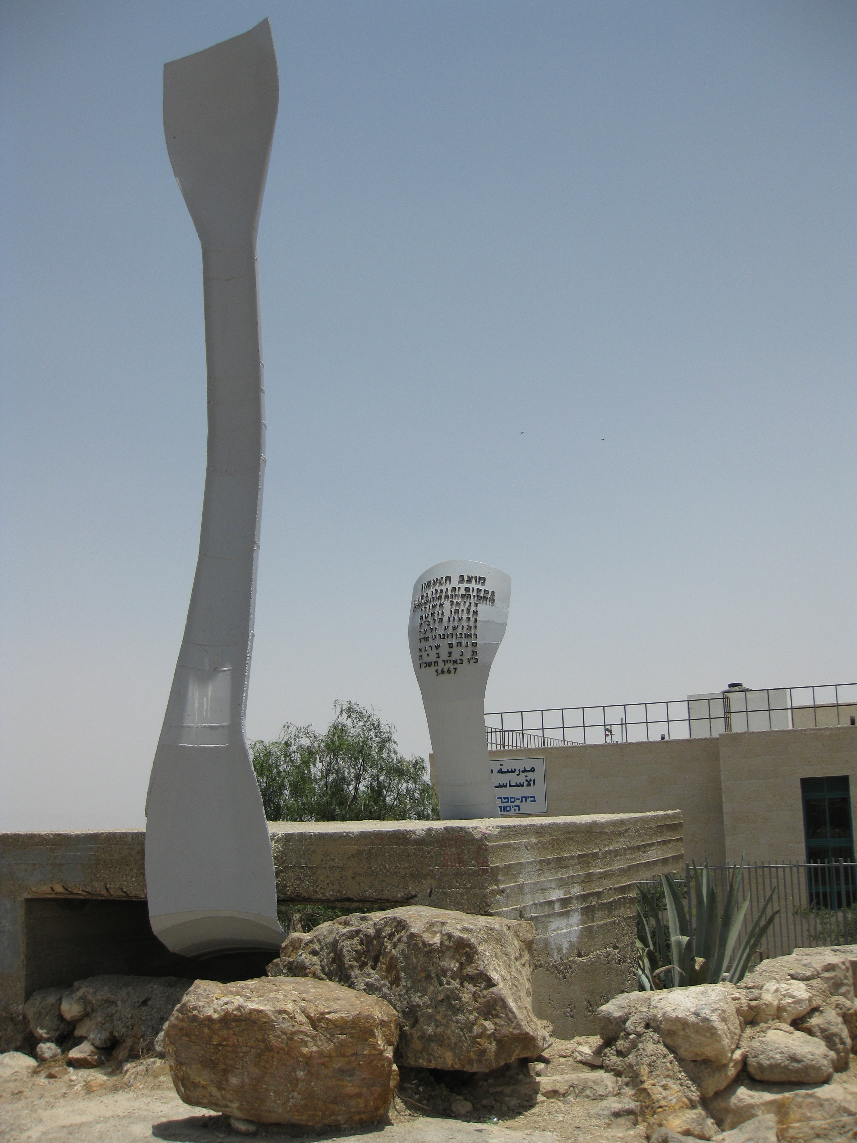 HaPaamon Memorial